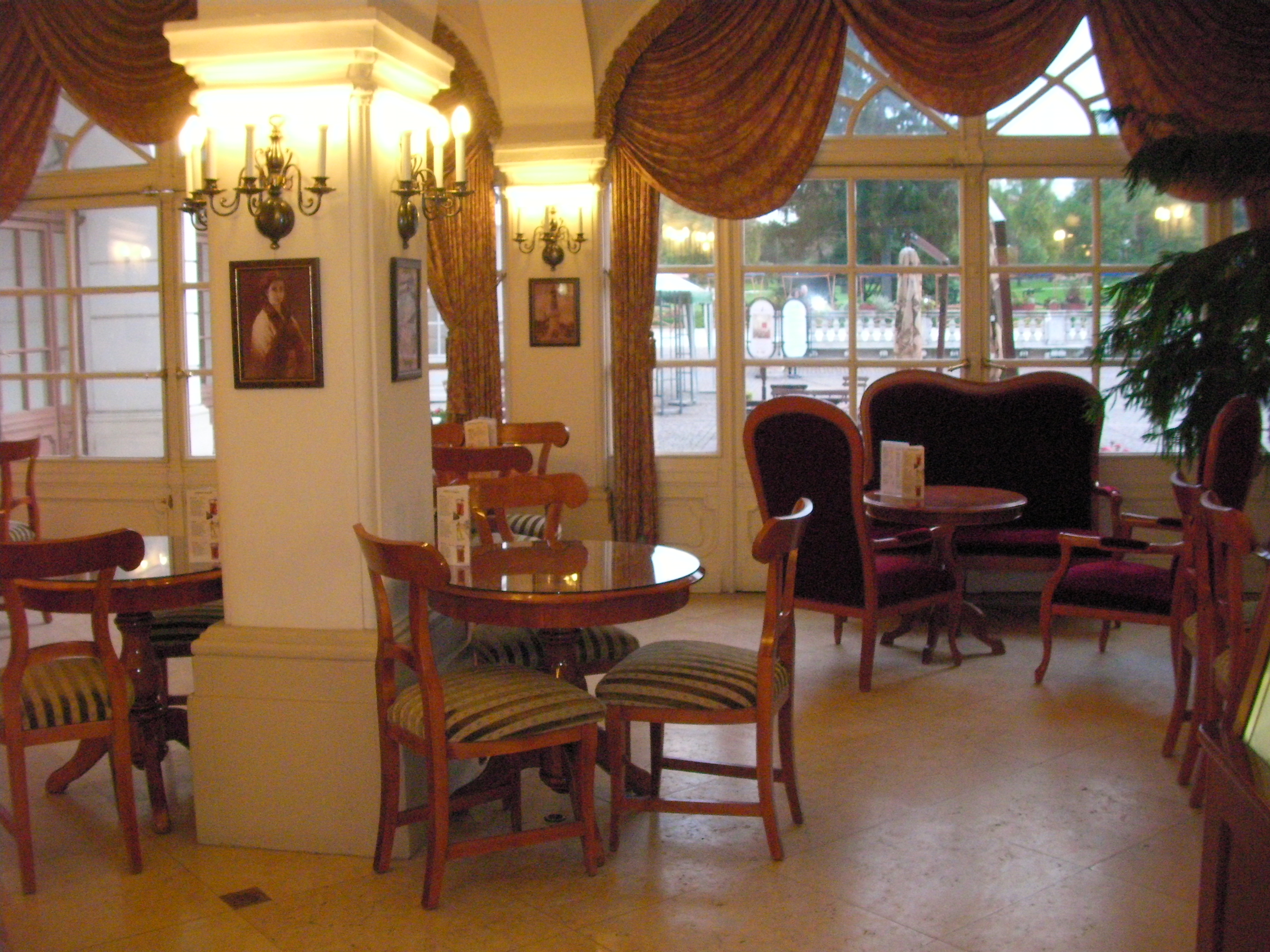 Small cafe in the left wing